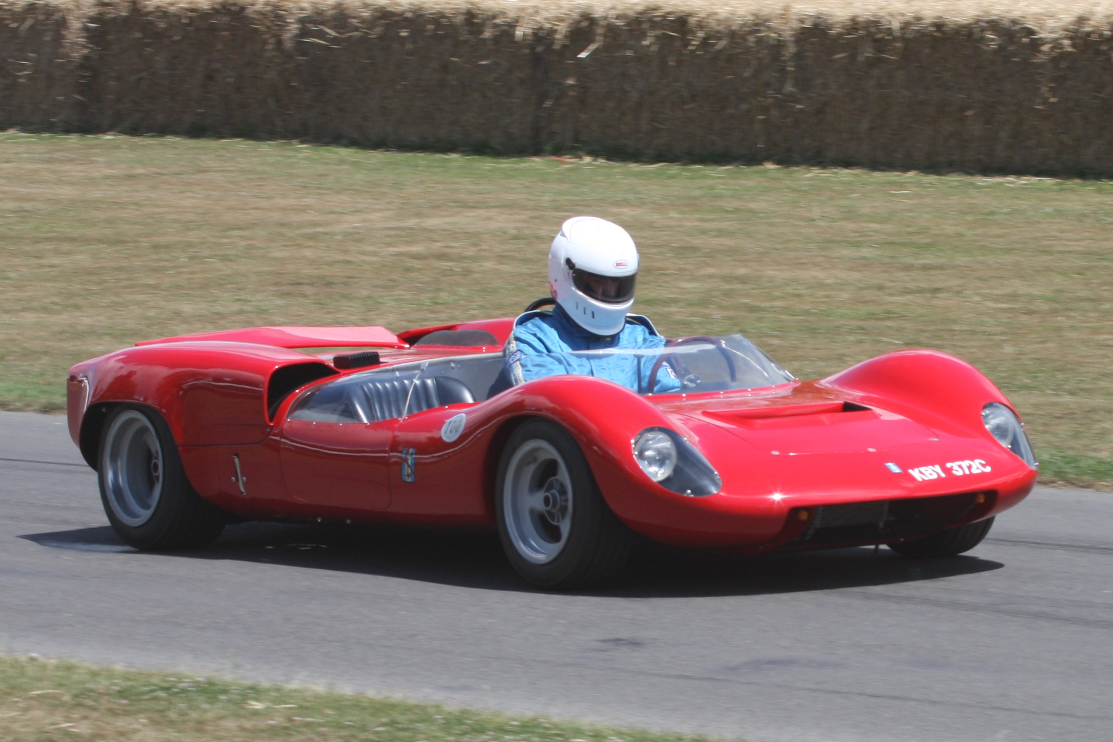 1966 De Tomaso-BRM Sport 1000